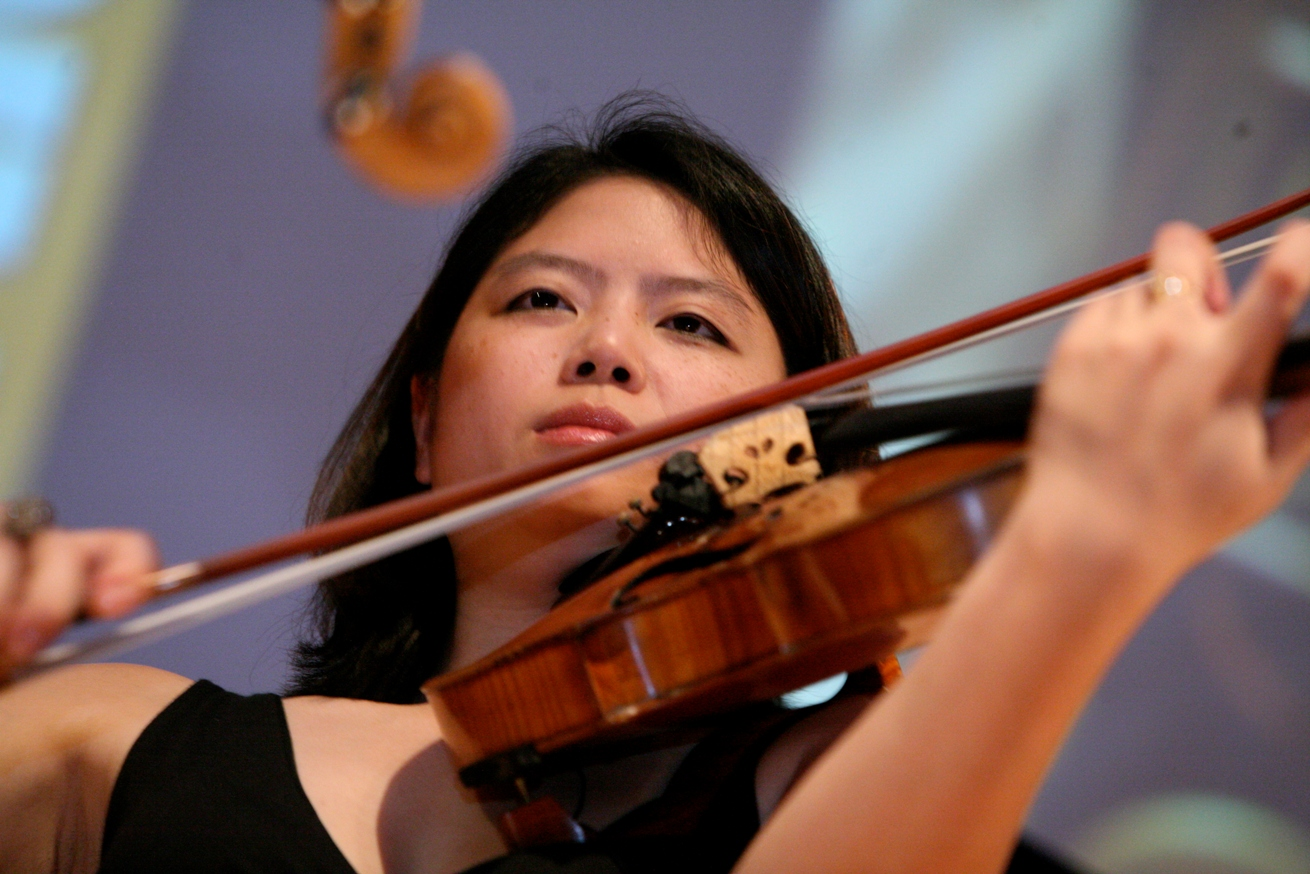 Participant performing at EUROPAfest 2010